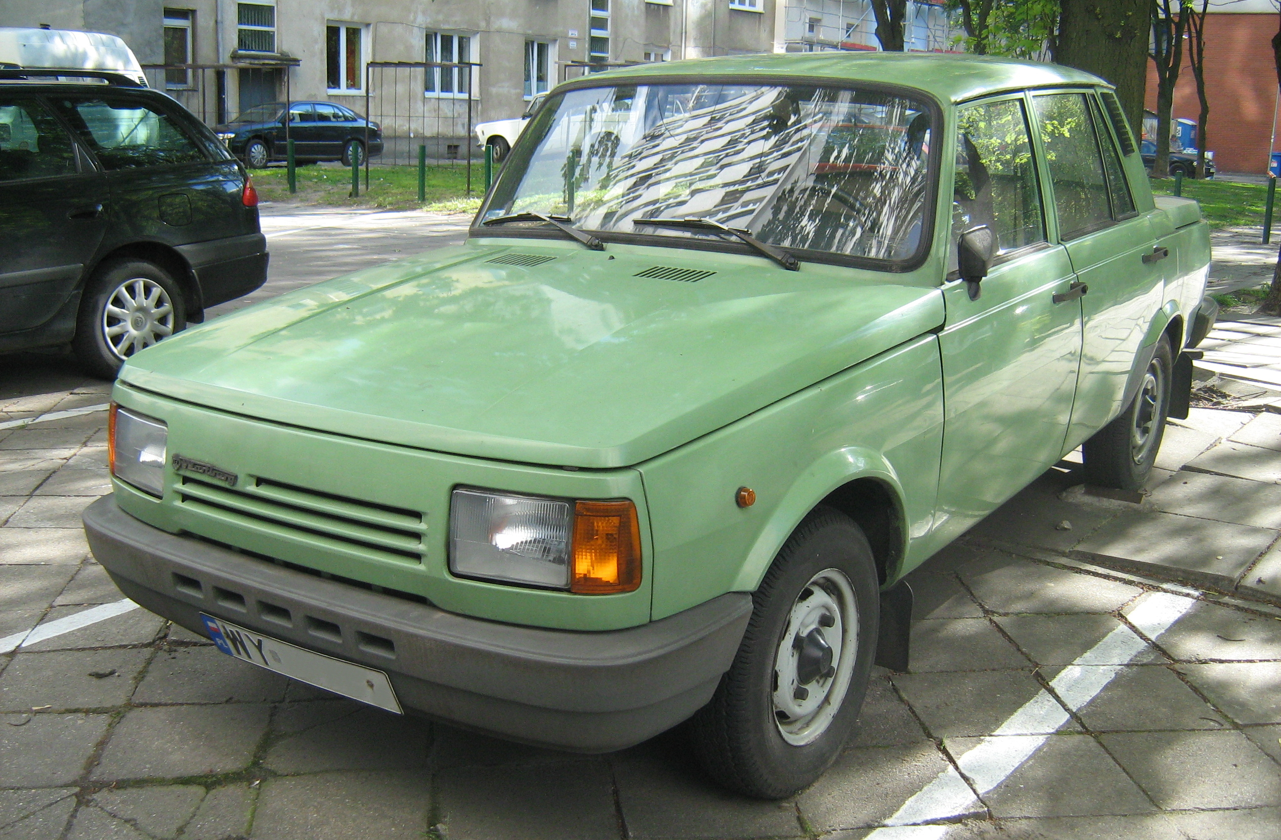 Wartburg 1.3 sedan (green) in Warsaw